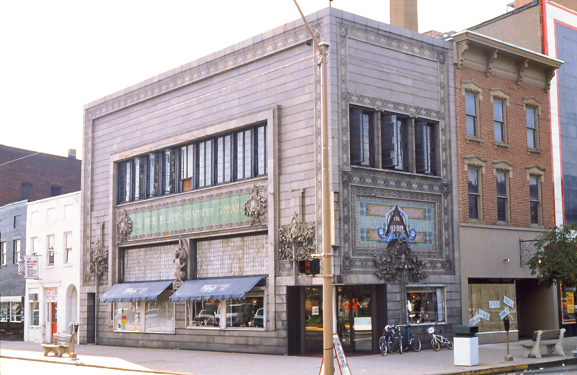 photo by einar Einarsson Kvaran aka Carptrash 07:22, 24 December 2006 (UTC). the Home Building Association Company building by Louis Sullivan in Newark, Ohio